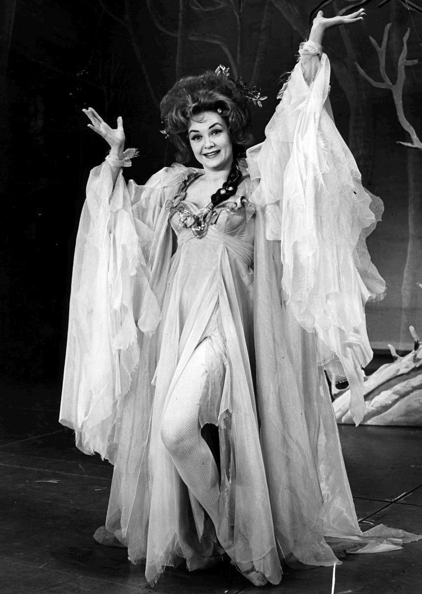 Photo of M'el Dowd as Morgan le Fay from Camelot.